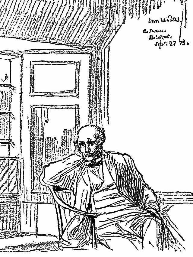 Writer John Richard de Capel Wise sketched by Walter Crane at an "old inn window at Bolsover", 27 September 1879